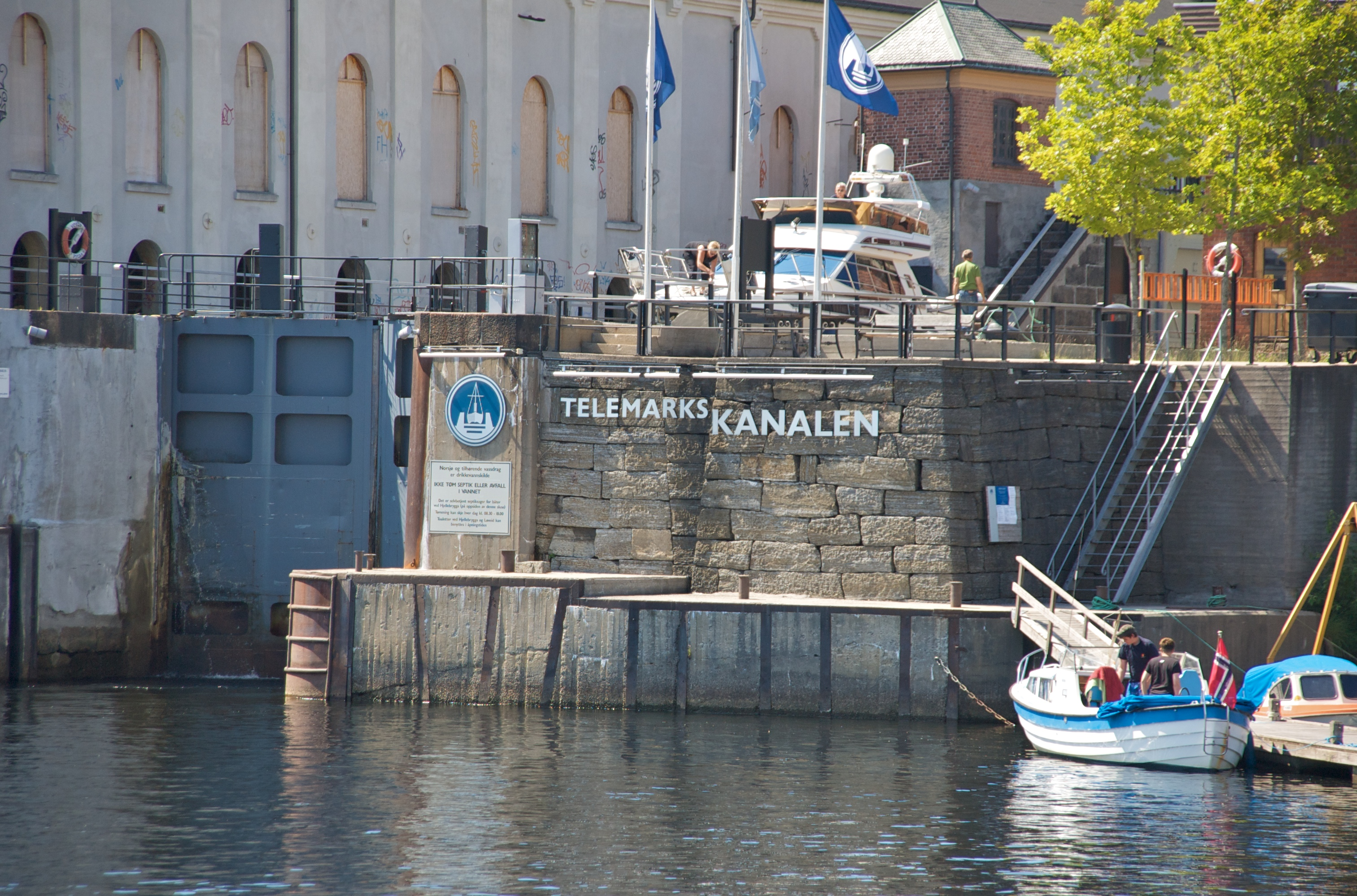 Lock in Skien, Norway.